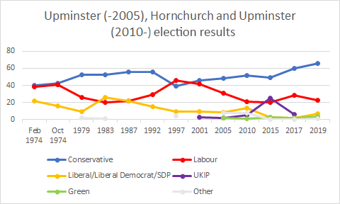 Election results of Hornchurch and Upminster parliamentary constituency since 2010 and the former Upminster constituency from Feb 1974-2005.